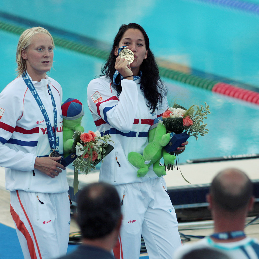 Medalists Inge Dekker and Ranomi Kromowidjojo during 2009 FINA World Championships, Rome, Italy.